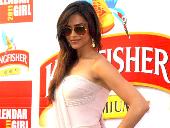 Deepika and Siddharth Mallya at Kingfisher Calendar Girl Model launch 2011